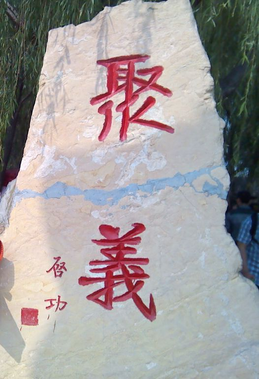 Tushan Island in Dongping Lake